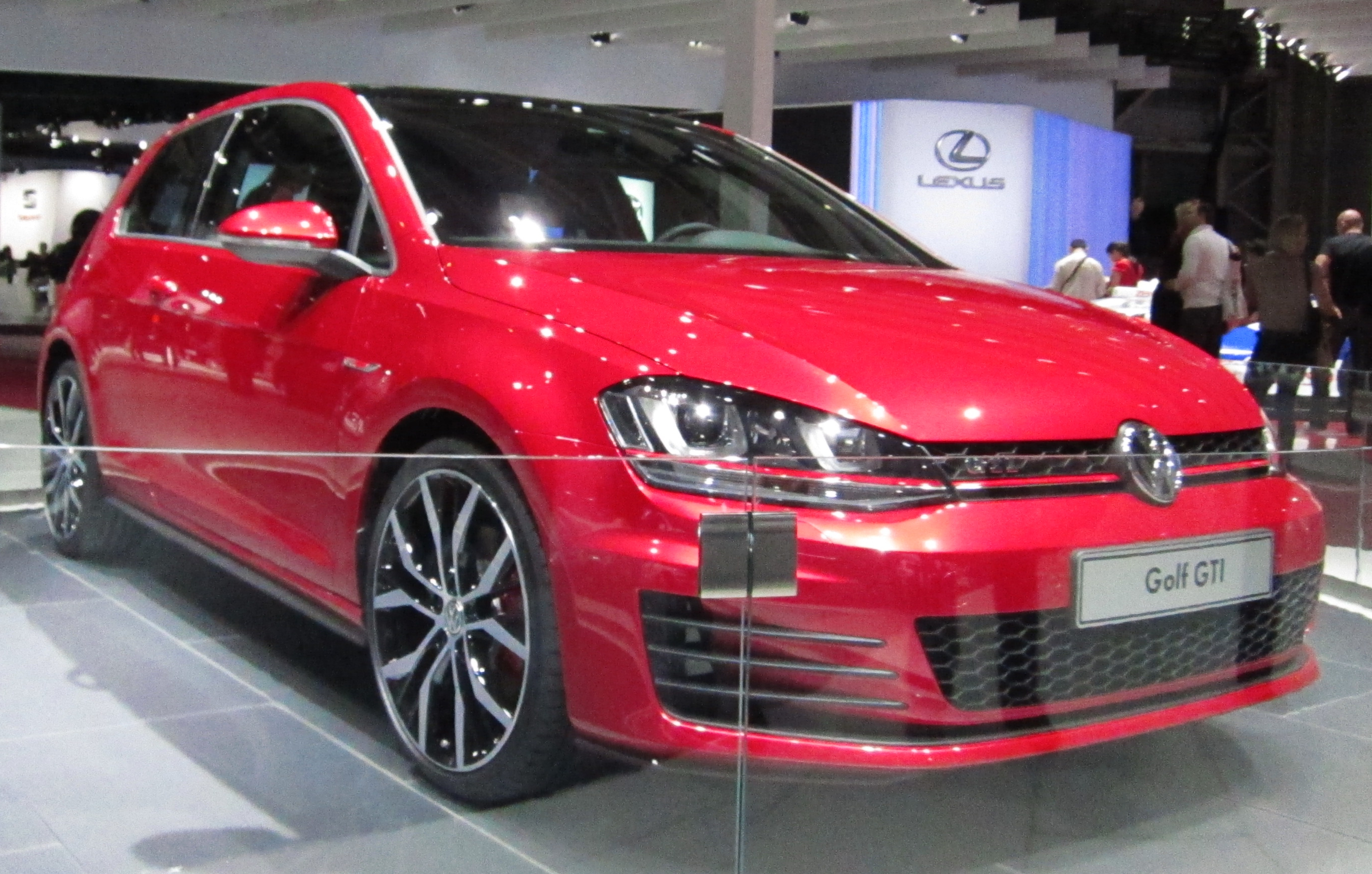 Volkswagen Golf VII GTI at Mondial de l'Automobile Paris 2012